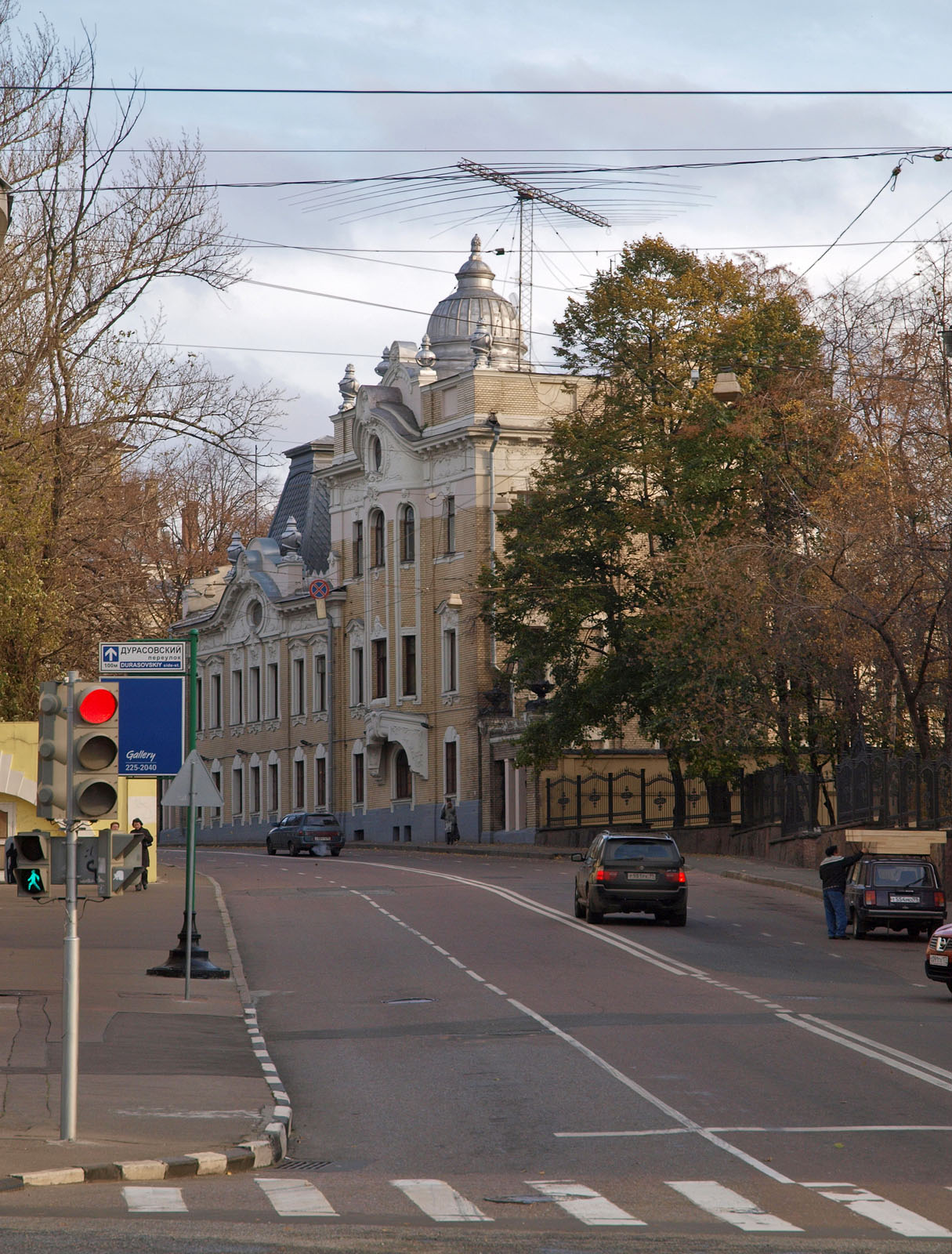 Embassy of India in Moscow (6, Vorontsovo Pole). 1911, architect: Ivan Baryutin (fence detail - Sergey Voskresensky